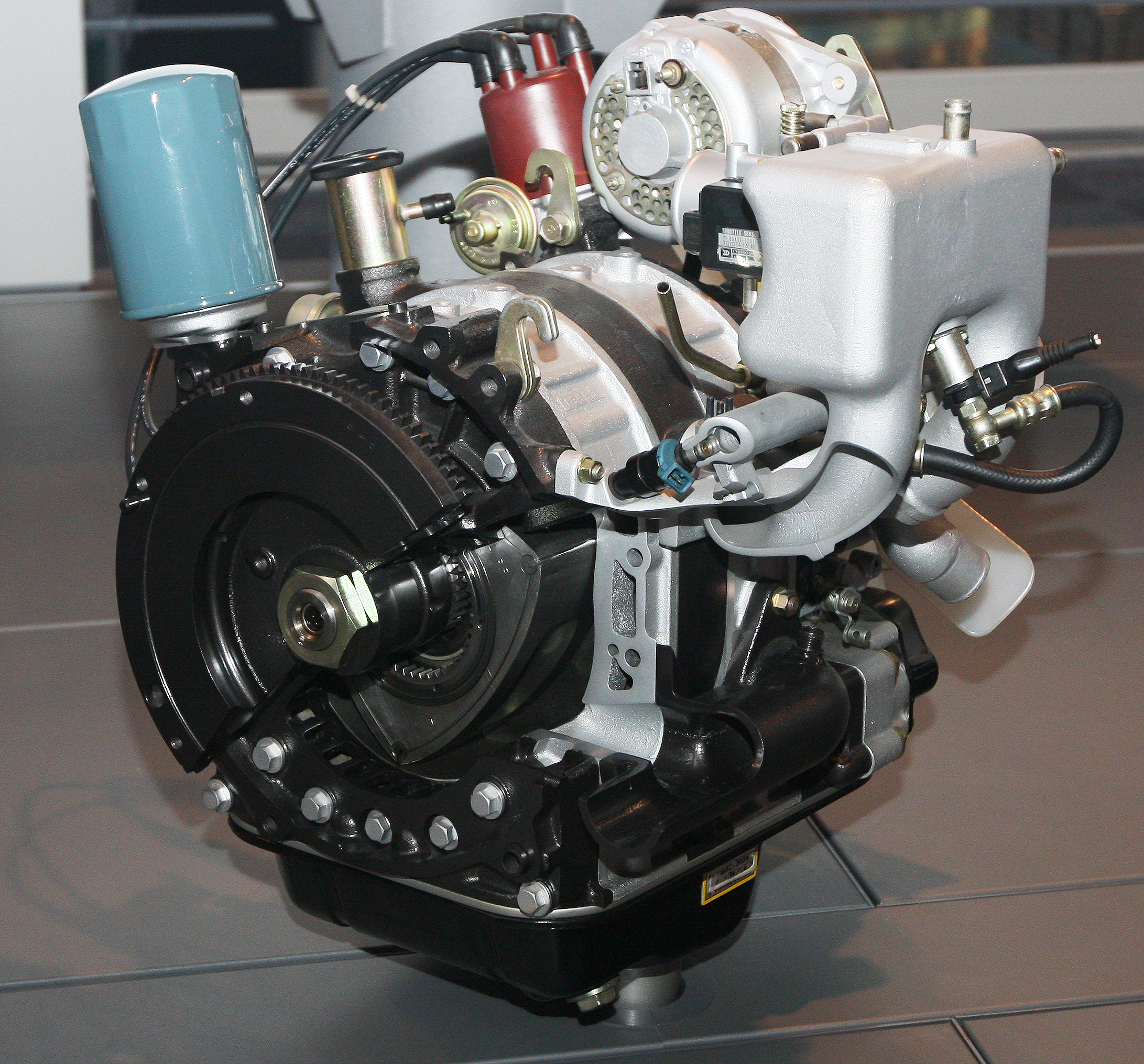 Toyota's experimental rotary engine in the 1970s.